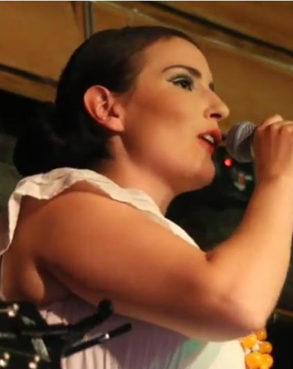 Maria Lund on a gig in July 2011